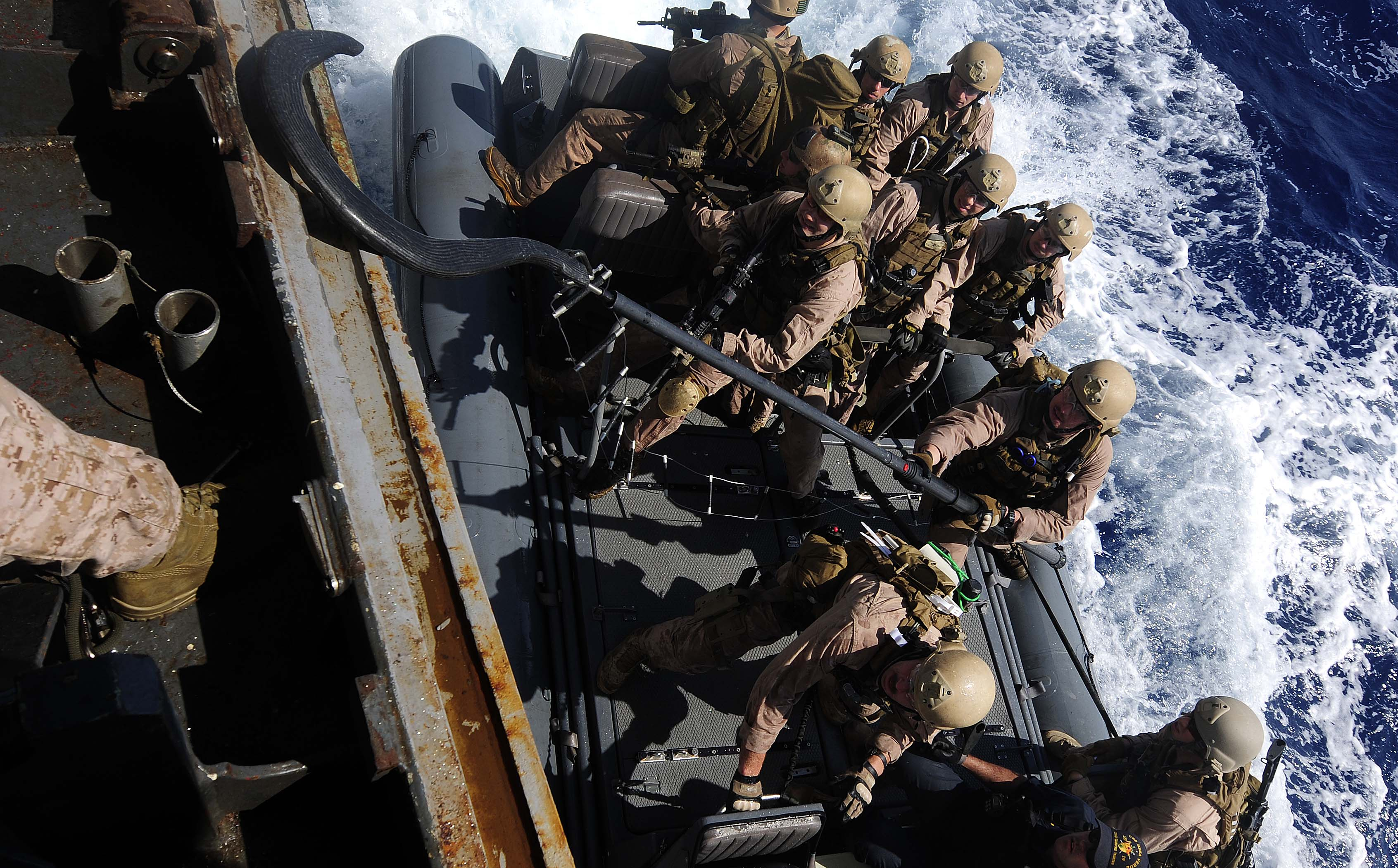 MEDITERRANEAN SEA (May 5, 2011) Marines prepare to hook a rigid-hull inflatable boat during a visit, board, search and seizure, hook and pull exercise with the amphibious transport dock ship USS Mesa Verde (LPD 19). Mesa Verde is deployed as part of the Bataan Amphibious Ready Group supporting maritime security operations and theater security cooperation efforts in the U.S. 6th Fleet area of responsibility. (U.S. Navy photo by Mass Communication Specialist 2nd Class Josue L. Escobosa/Released)